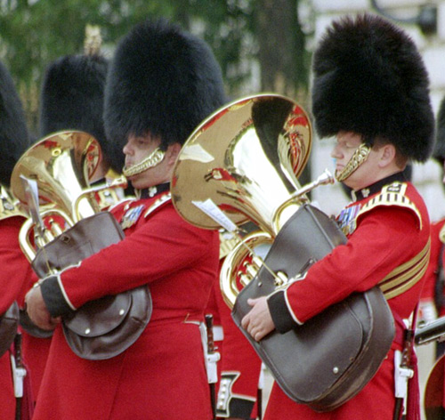 Euphonium and Tuba brass instruments